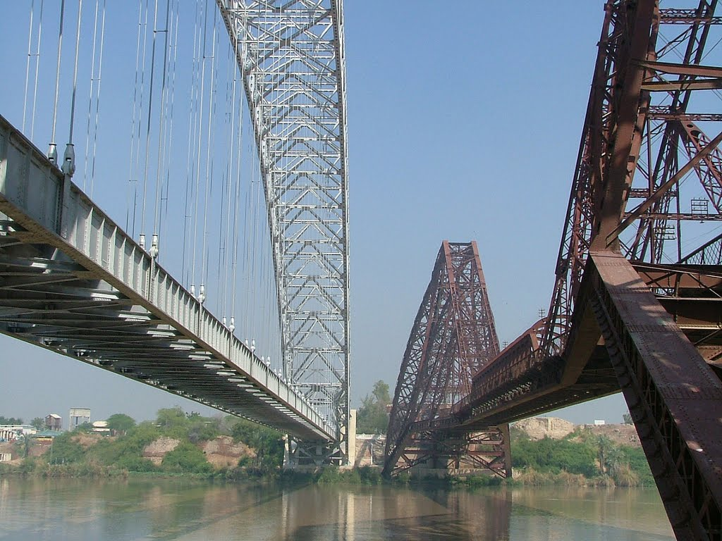 Identity Of The Sukkur City